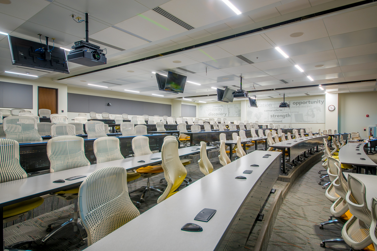 By incorporating student feedback in the design process, the tiered classroom/lecture hall has been equipped with multiple entrances and seating designed to promote collaborative team-based learning. A capture system allows for lectures to be recorded and interactivity with students. This fifth-floor academic space will be used for year 1 and year 2 MD courses, but can also be utilized for community lecture events.